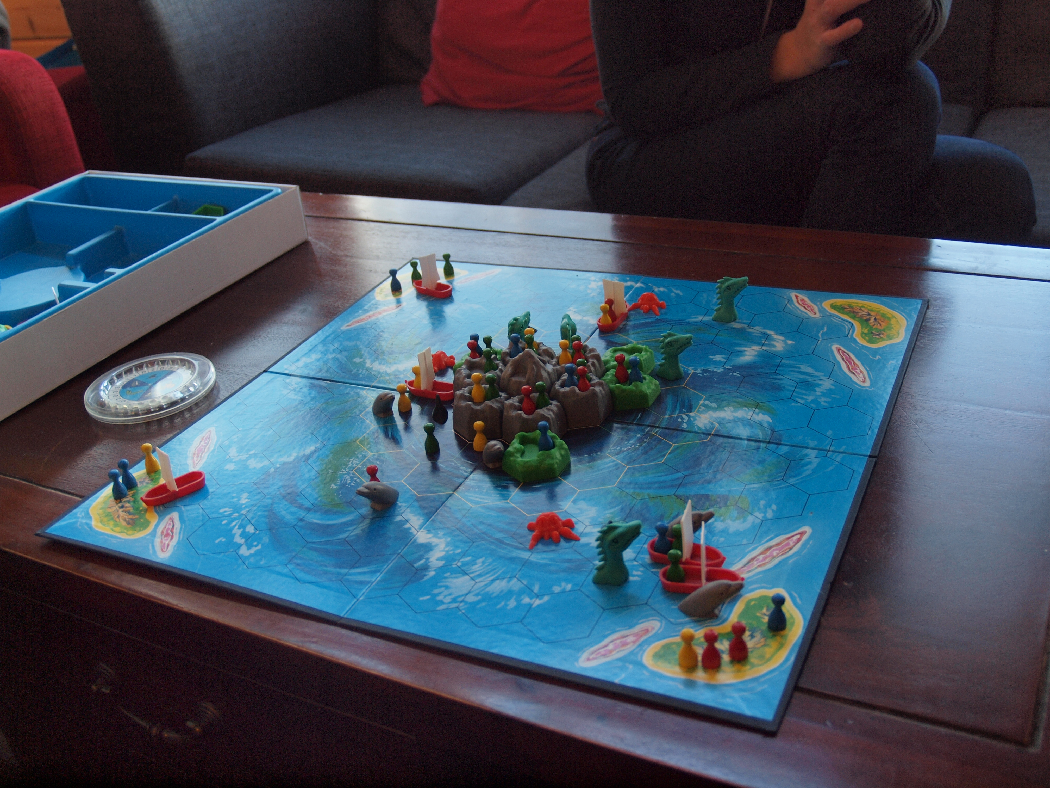 A game of "Escape from Atlantis" in the middle of play during a board game weekend in Hämeenlinna, Finland.